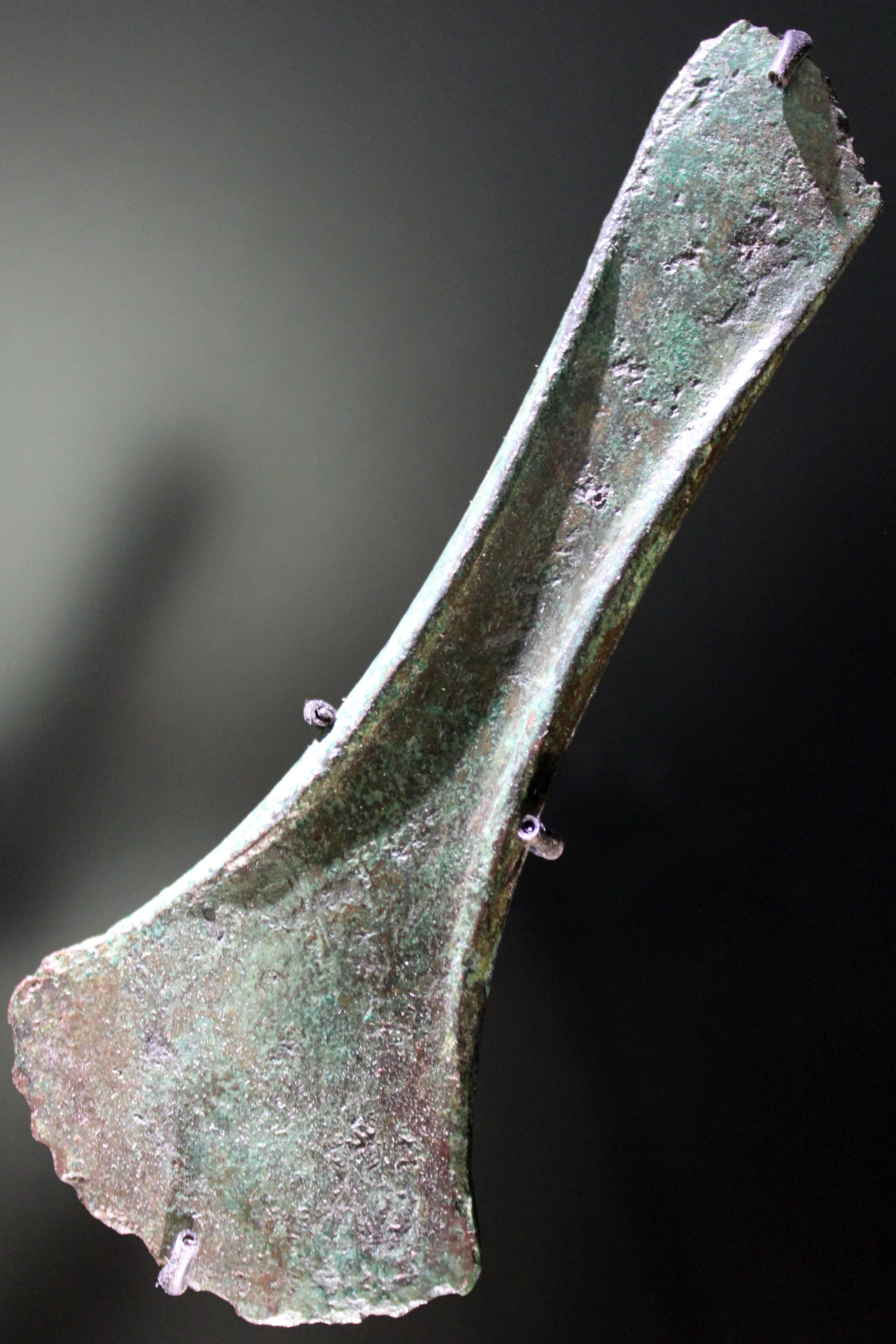 Bronze age hatchet, 2.200 - 1.950 BC, shown at the Landesmuseum Württemberg, Stuttgart, Germany